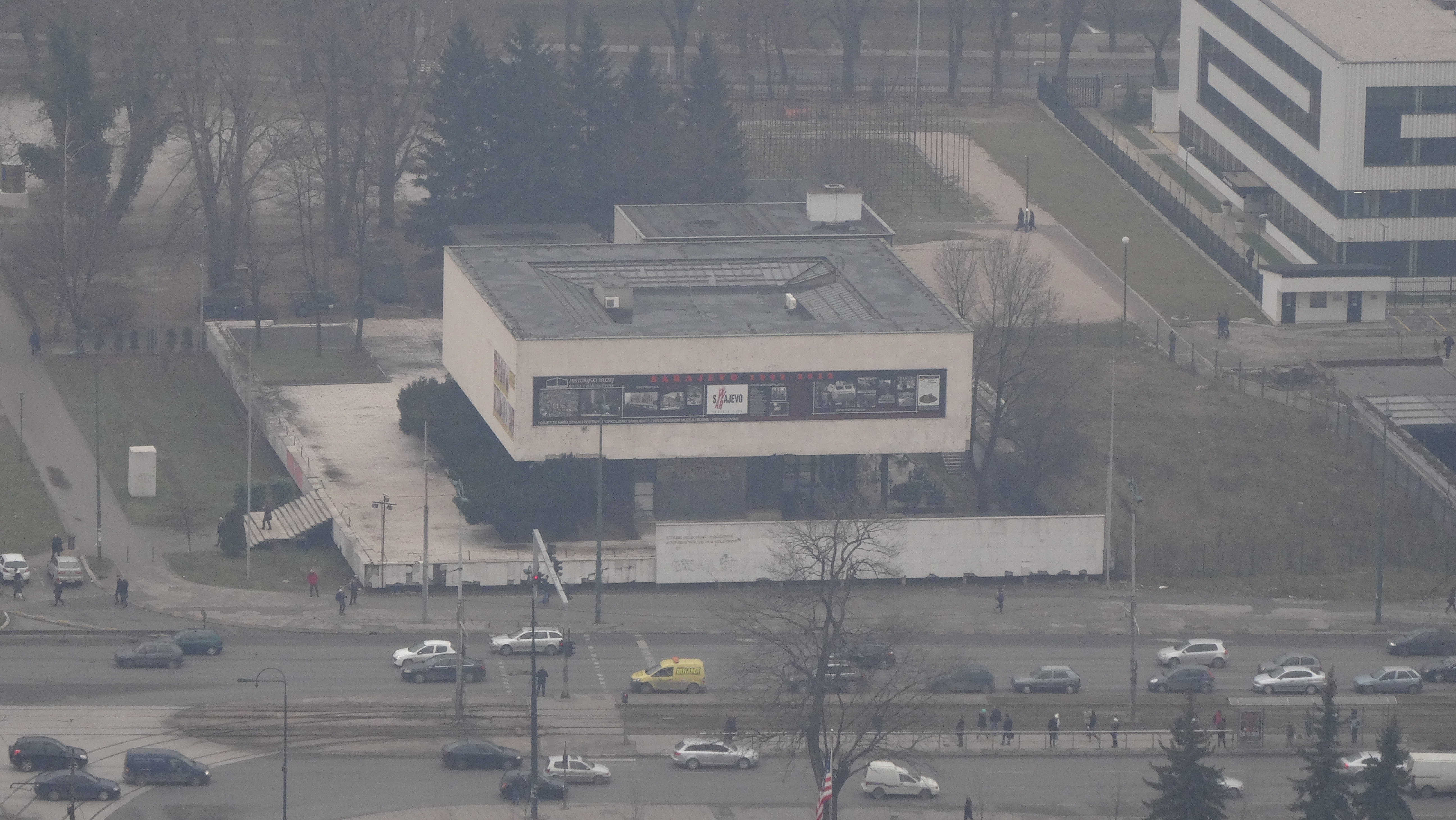 Historical Museum of Bosnia and Herzegovina, Sarajevo View from Avaz Twin tower